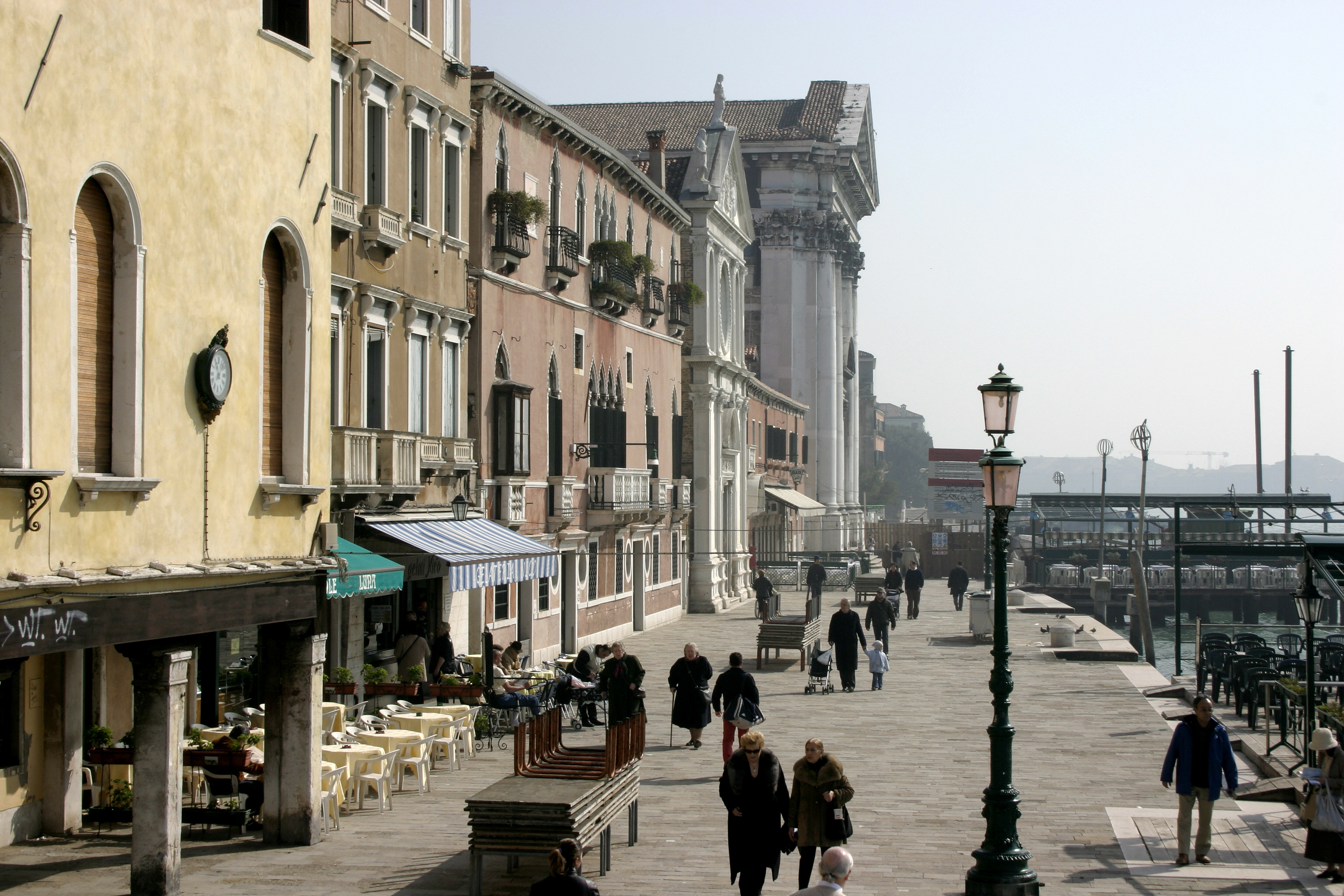 Venice - Zattere